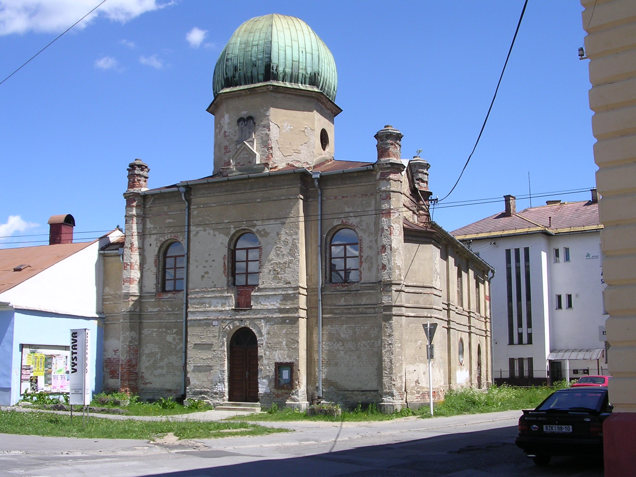 Synagogue in Brzeno (Slovakia) (2005)